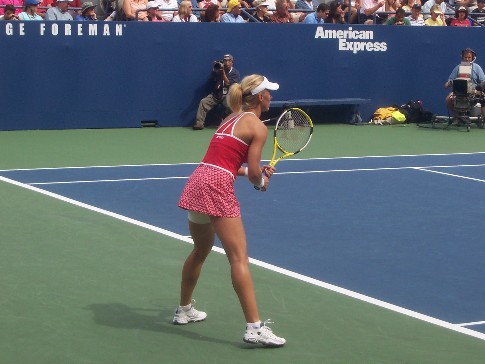 Elena Dementieva Playing 1st Round At The 2006 U.S. Open